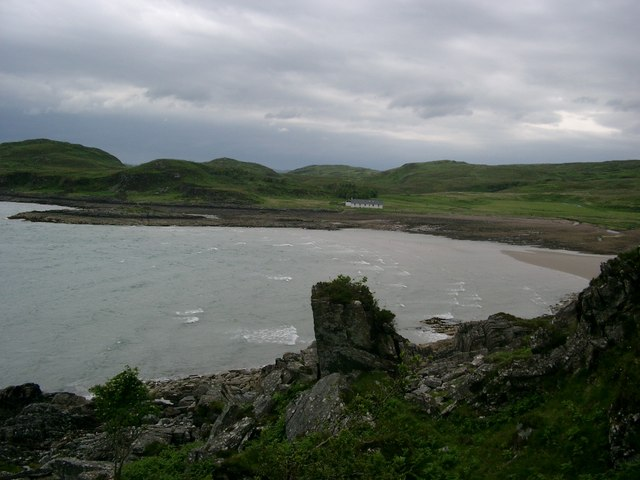 Sandaig Bay.